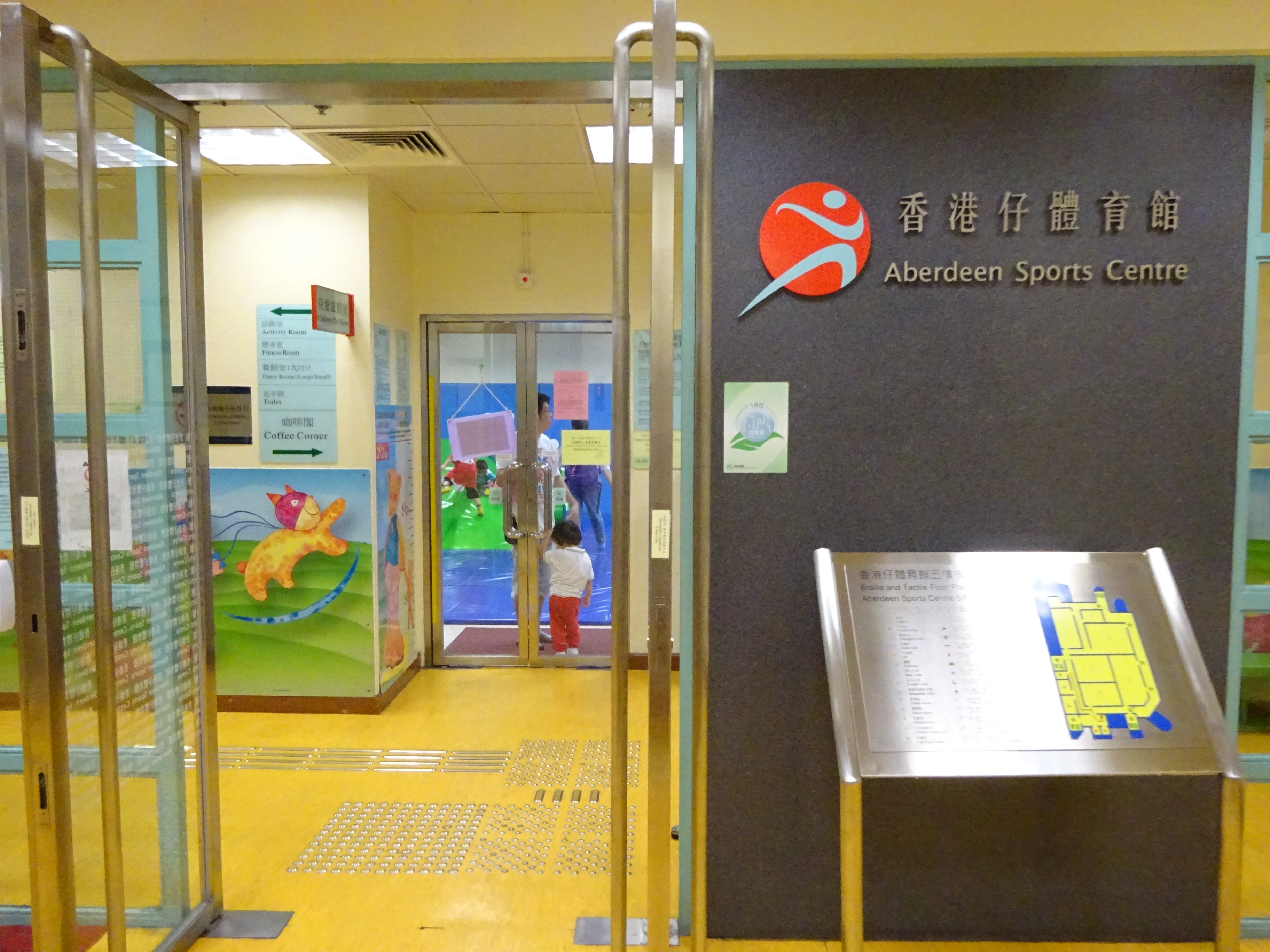 HK 香港仔市政大廈 Aberdeen Public Sports Centre shoes shelves in May 2016